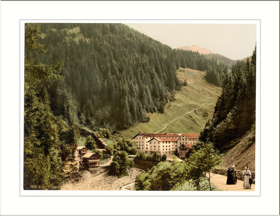 Pratigau the Baths of Fideris Grisons Switzerland